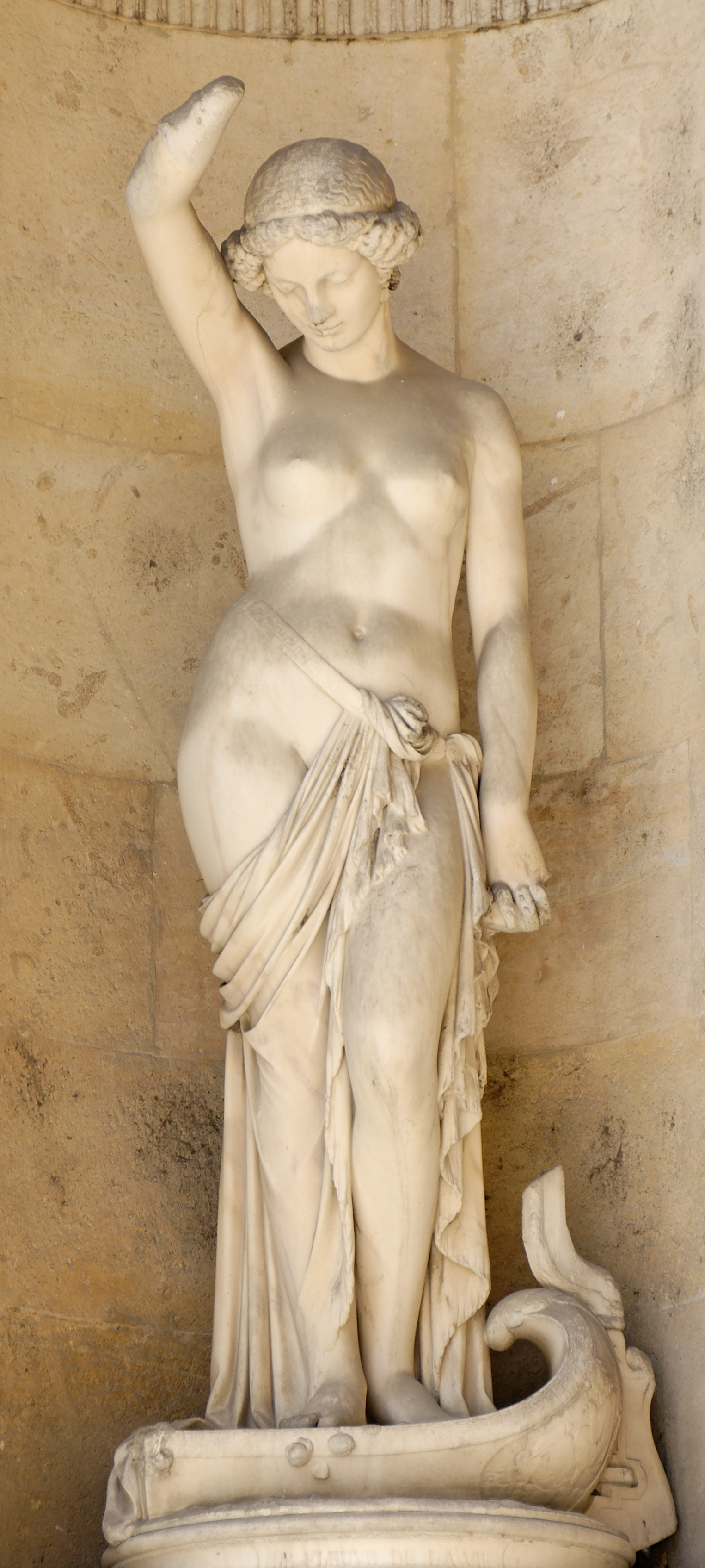 River of life (1855), by Pierre Hébert (1804-1869). West façade of the Cour Carrée in the Louvre palace, Paris.